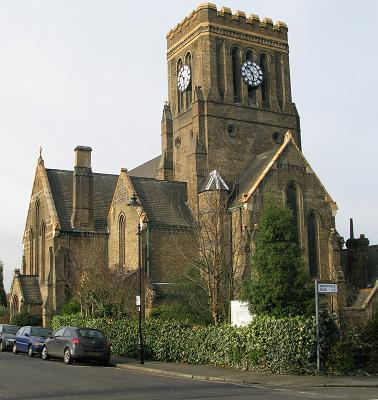 Front of St John's Church Ealing (St John With Saint James Parish) on Mattock Lane in West Ealing, London, United Kingdom. It is a Grade II listed building.